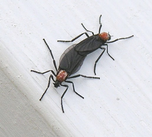 lovebugs, mating, as they always do.... Photograph taken by myself on may, 14, 2005 in Galveston, TX, U.S.A.